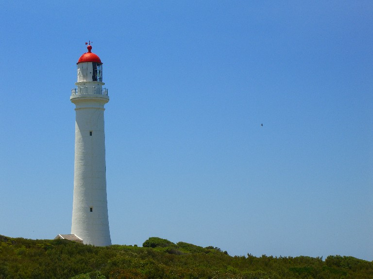 Split Point Lighthouse, Aireys Inlet, Victoria, Australia